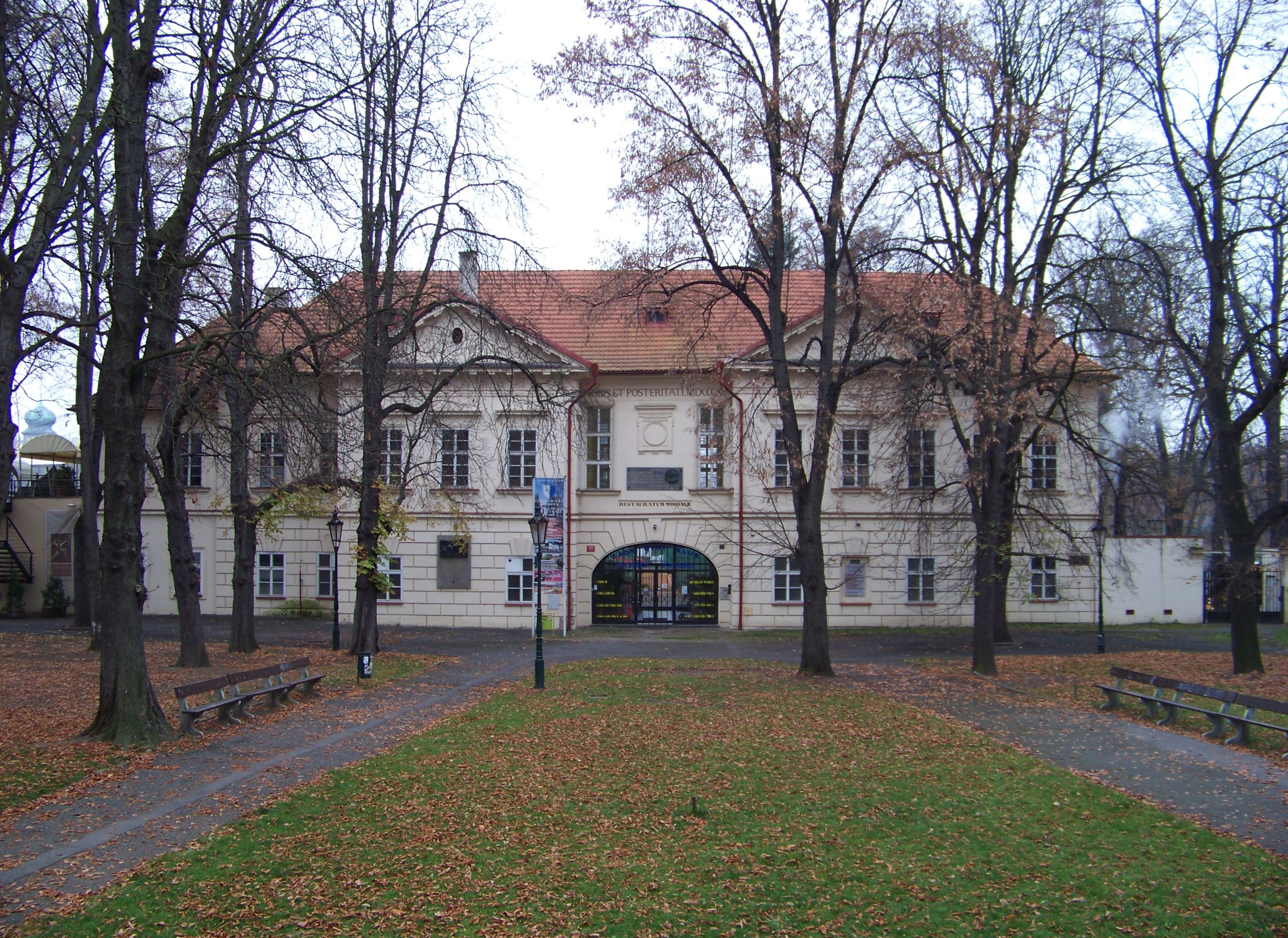 Prague-Old Town, the Czech Republic. The island of Střelecký ostrov, a restaurant.